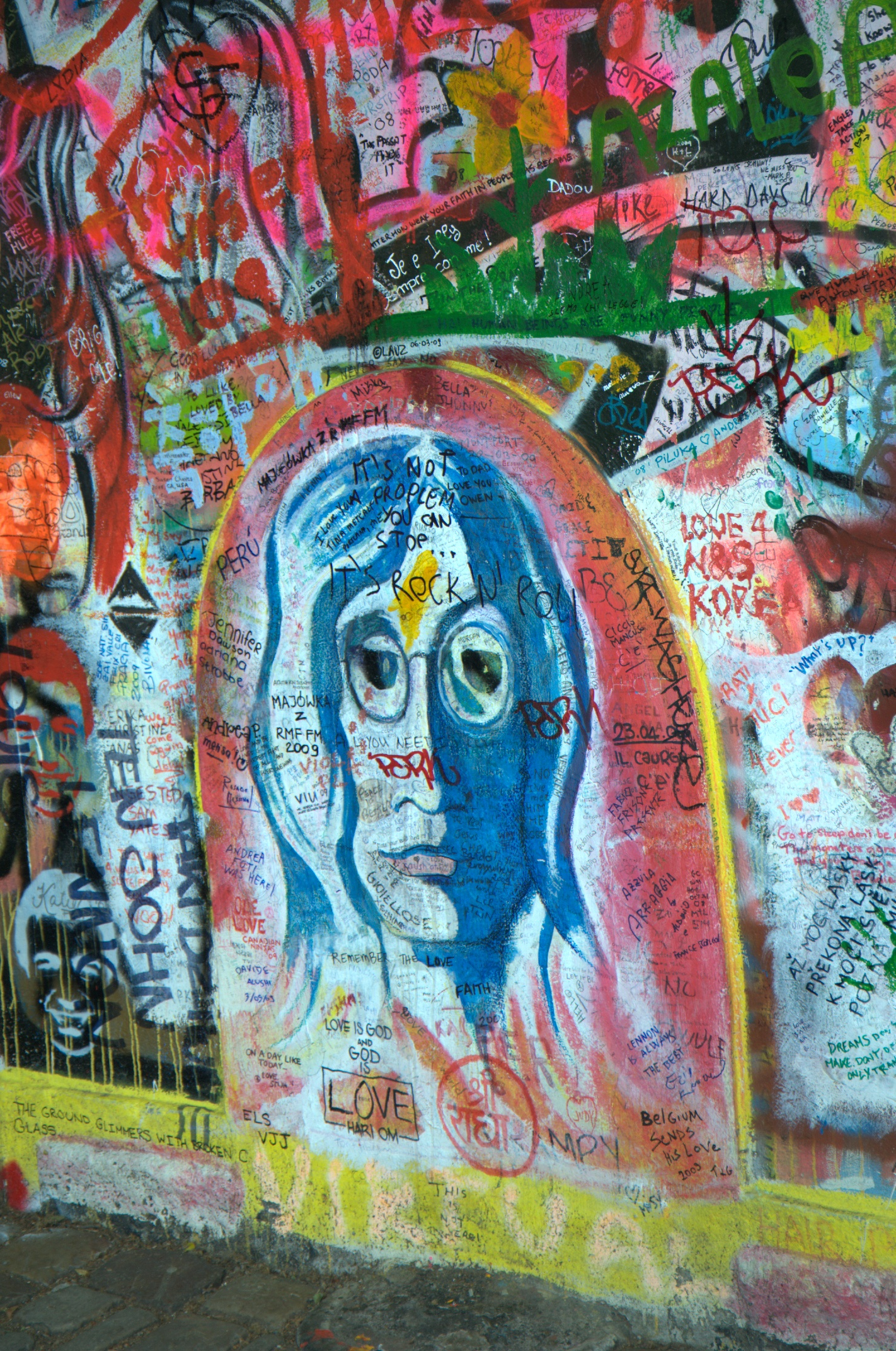 This is the tag showing John Lennon at the so called "John Lennon Wall" in Prague. I am not sure this is the first, the original drawing / tag, because many "artists" hav used the wall throughout the years.